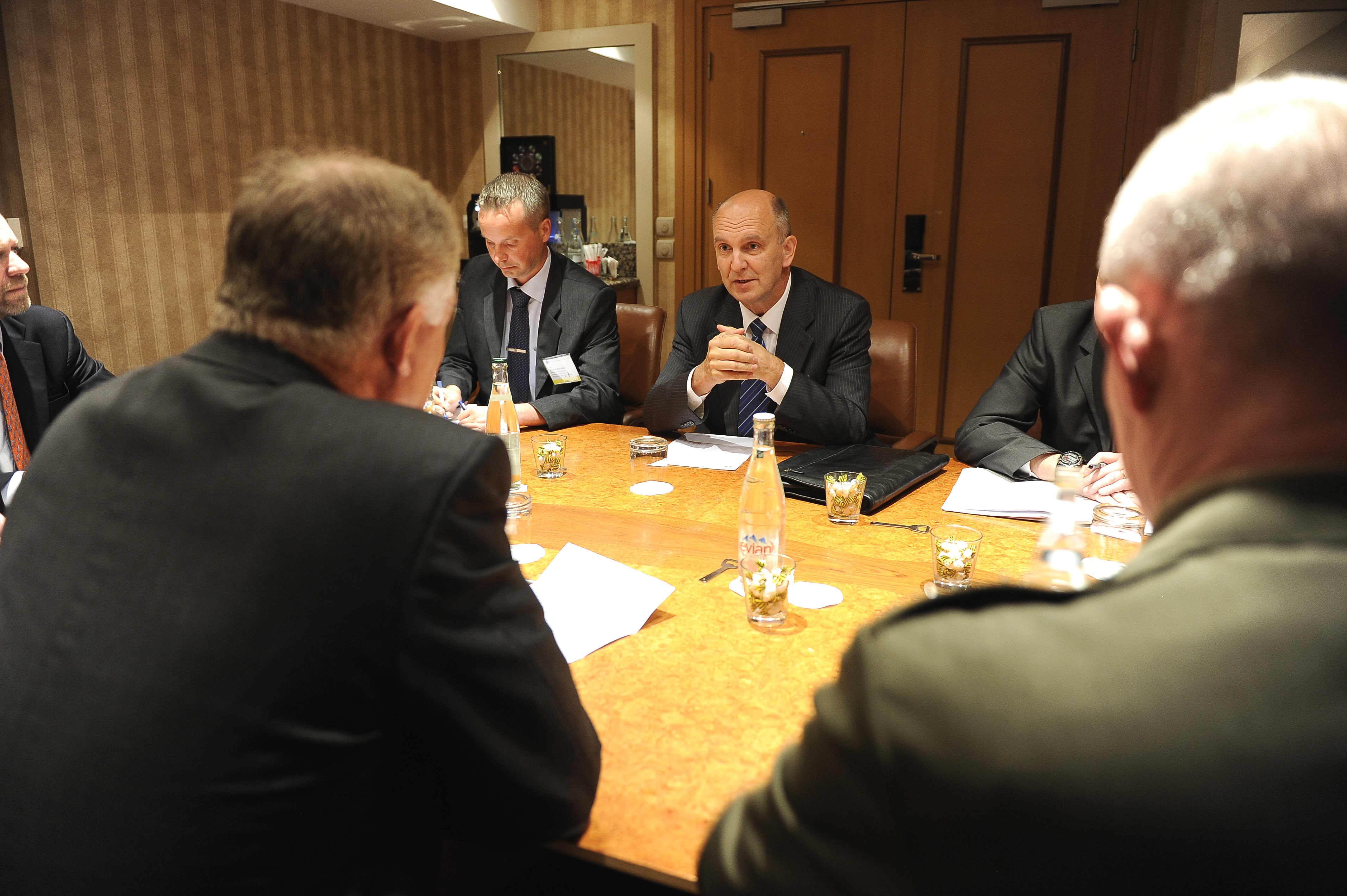 Finland's Permanent Secretary of the Ministry of Defence Lt. Gen. Arto Raty, center, meets with Deputy Defense Secretary William J. Lynn during a break at the 28th International Workshop on Global Security in Paris, France, June 16, 2011.